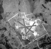 Overhead photograph of Outlying Landing Field Whitehouse near Jacksonville, Florida in the 1940s.